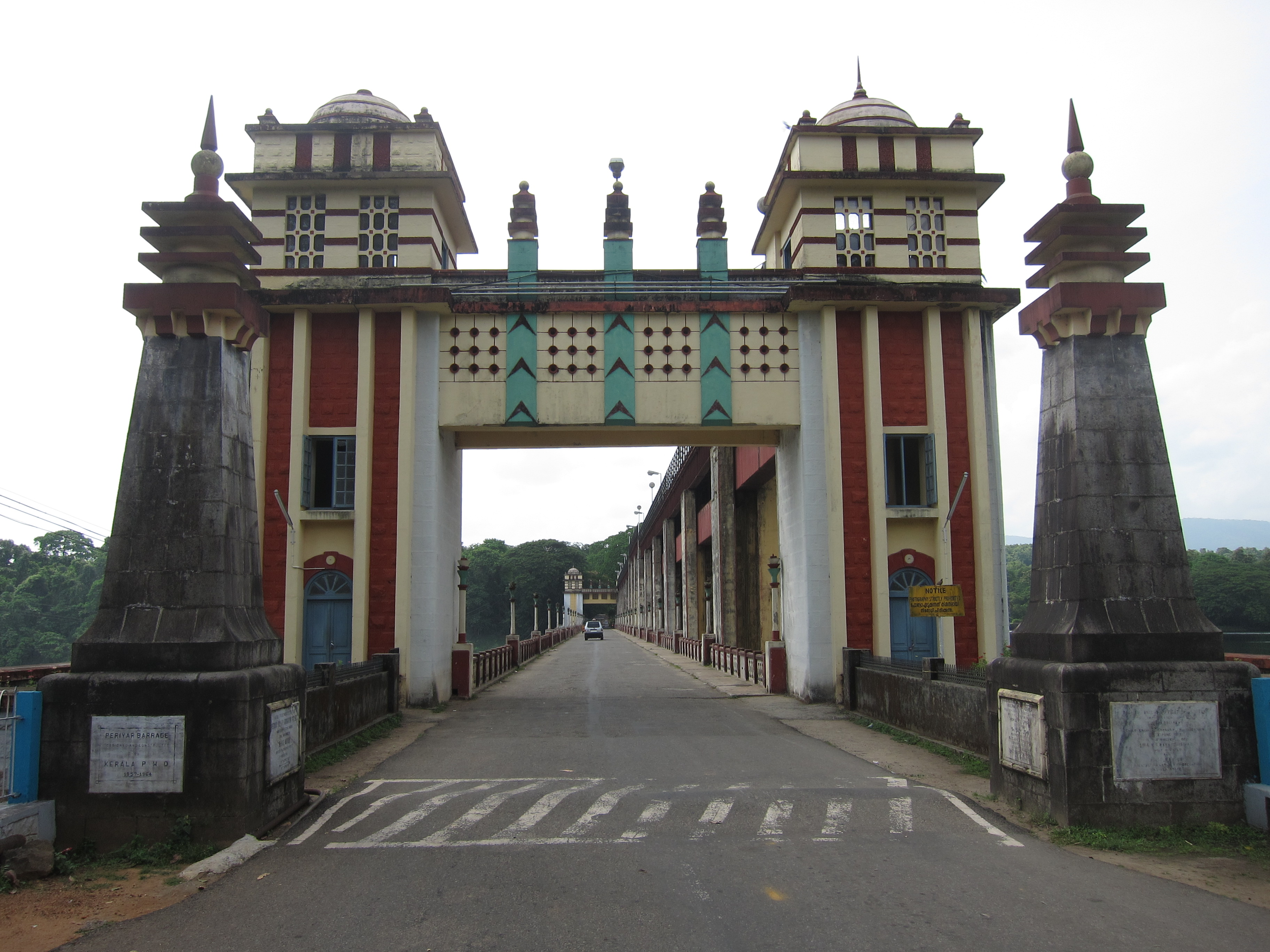 Bhoothathankettu Dam, Ernakulam District, Kothamangalam - Thattekadu Road, 3 k.m away from Keerampara Junction on the way to Idamalayar.